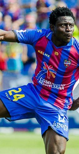 Martins GOAL vs. Valencia CF